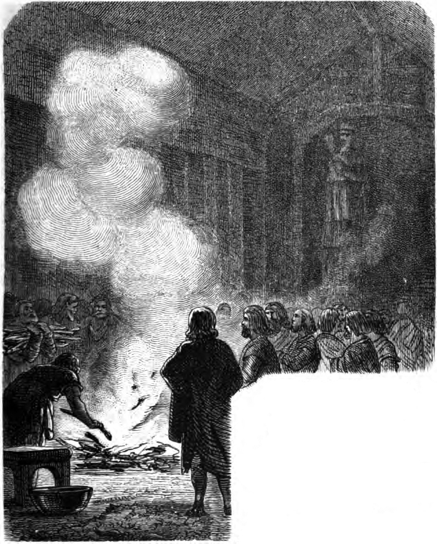 Captioned as "In Freyers Tempel bei Upsala". In Freyr's temple near Uppsala.